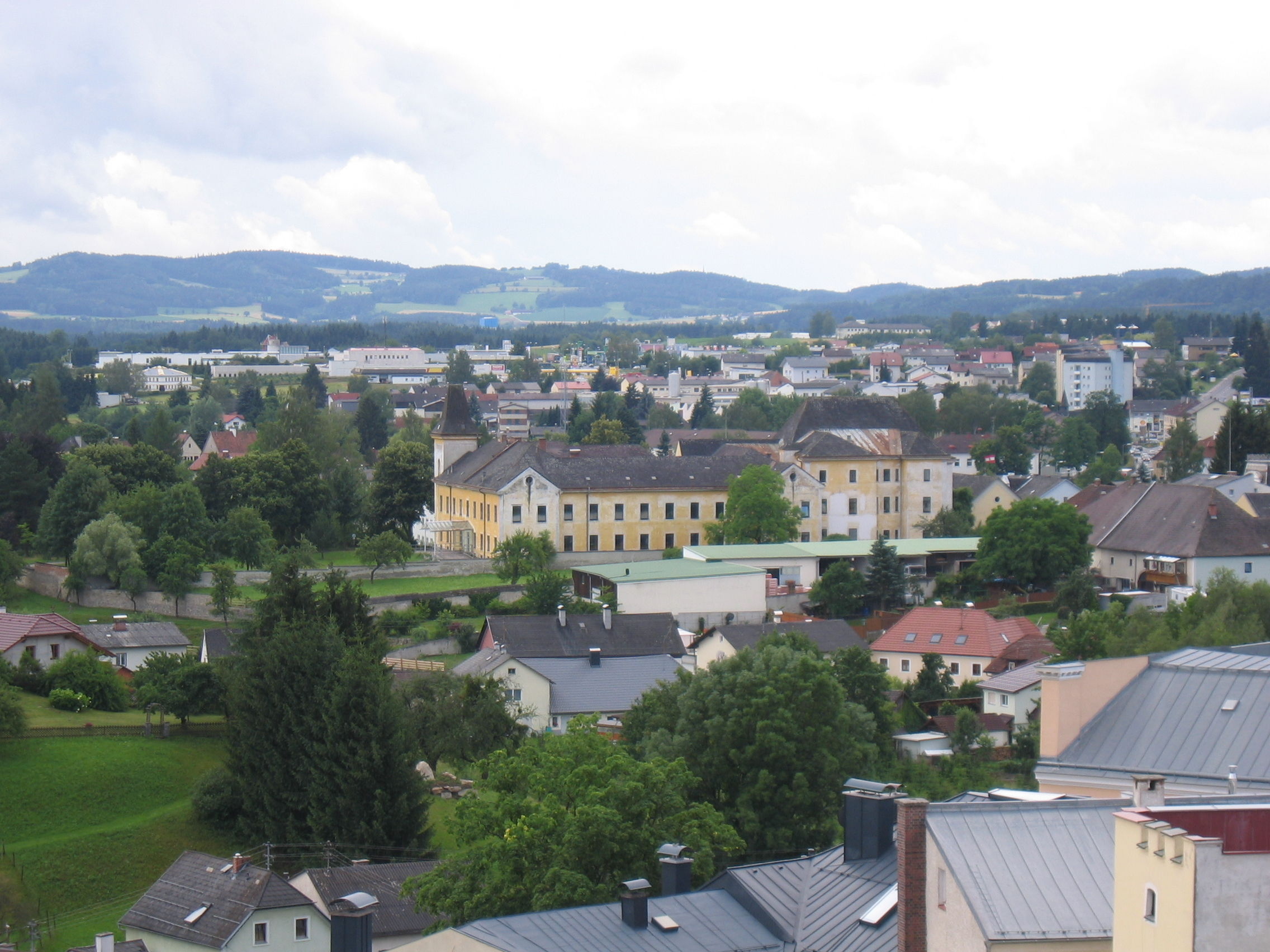 old Hospital Freistadt - former Castle Kinsky